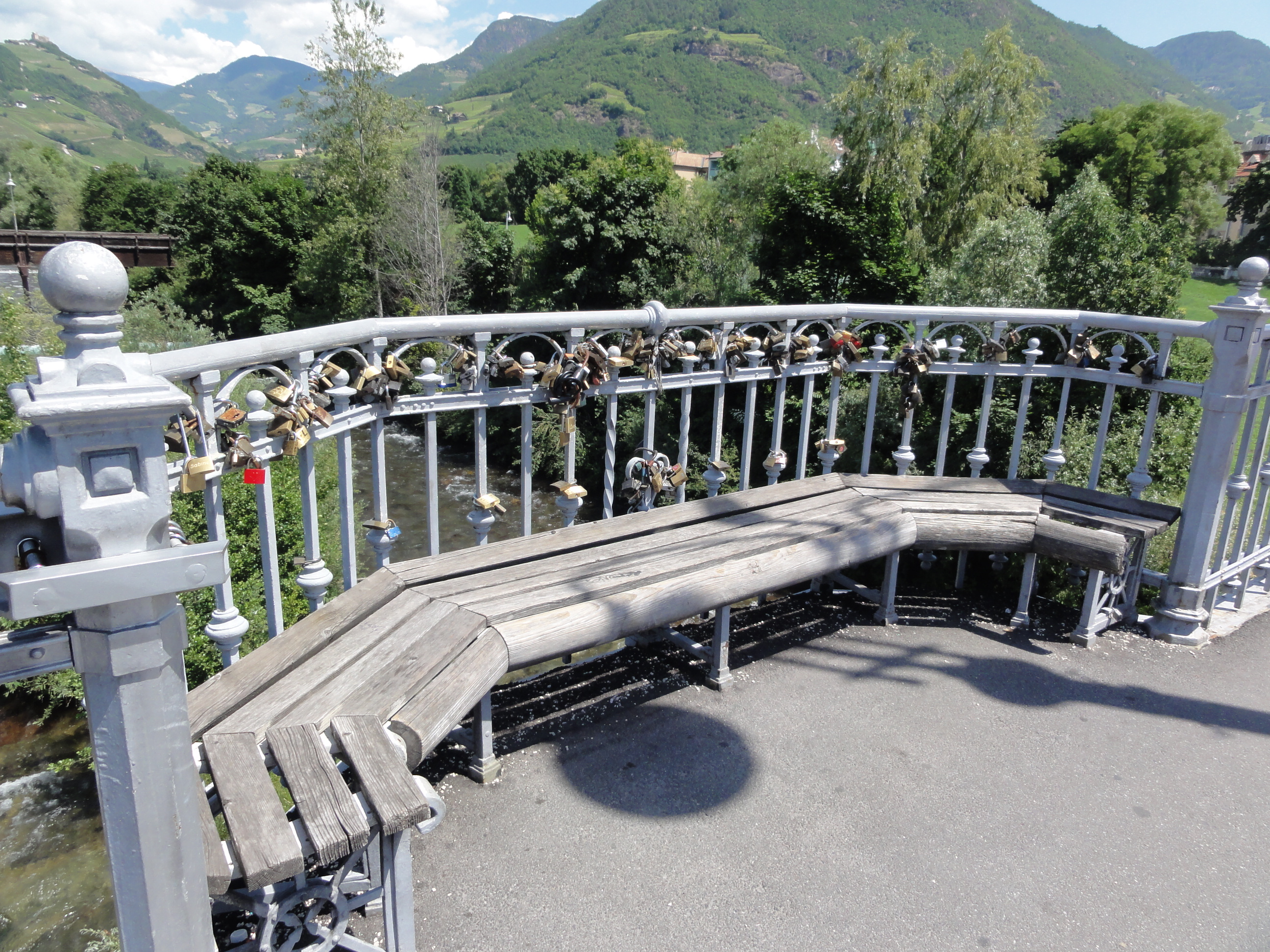 South Tyrol — Bolzano/Bozen